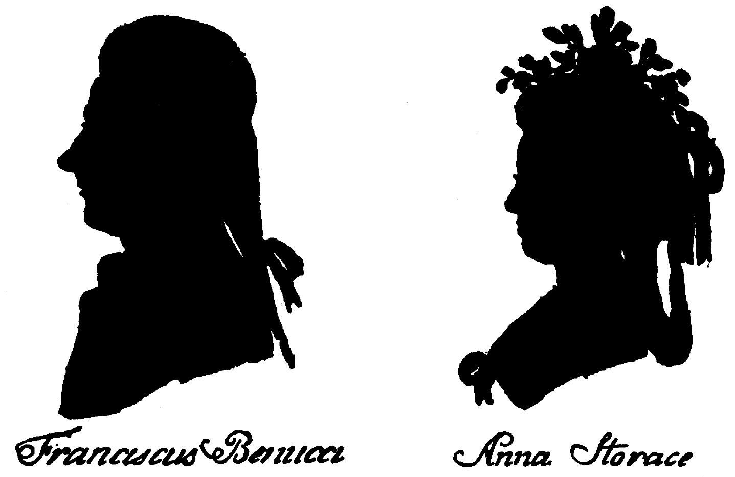 Silhoutte of the 18th century singers Francesco Benucci and Anna Storace by Hieronymous Loeschenkohl. Appeared originally in Oesterreichisches National Taschenkalender, Vienna 1786-1787. Source for attribution: Daniel Heartz (1992), Mozart's Operas, University of California Press, p. viii